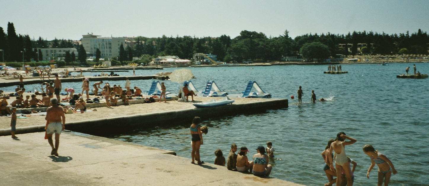 Beach of Materada (Poreč/Istria)